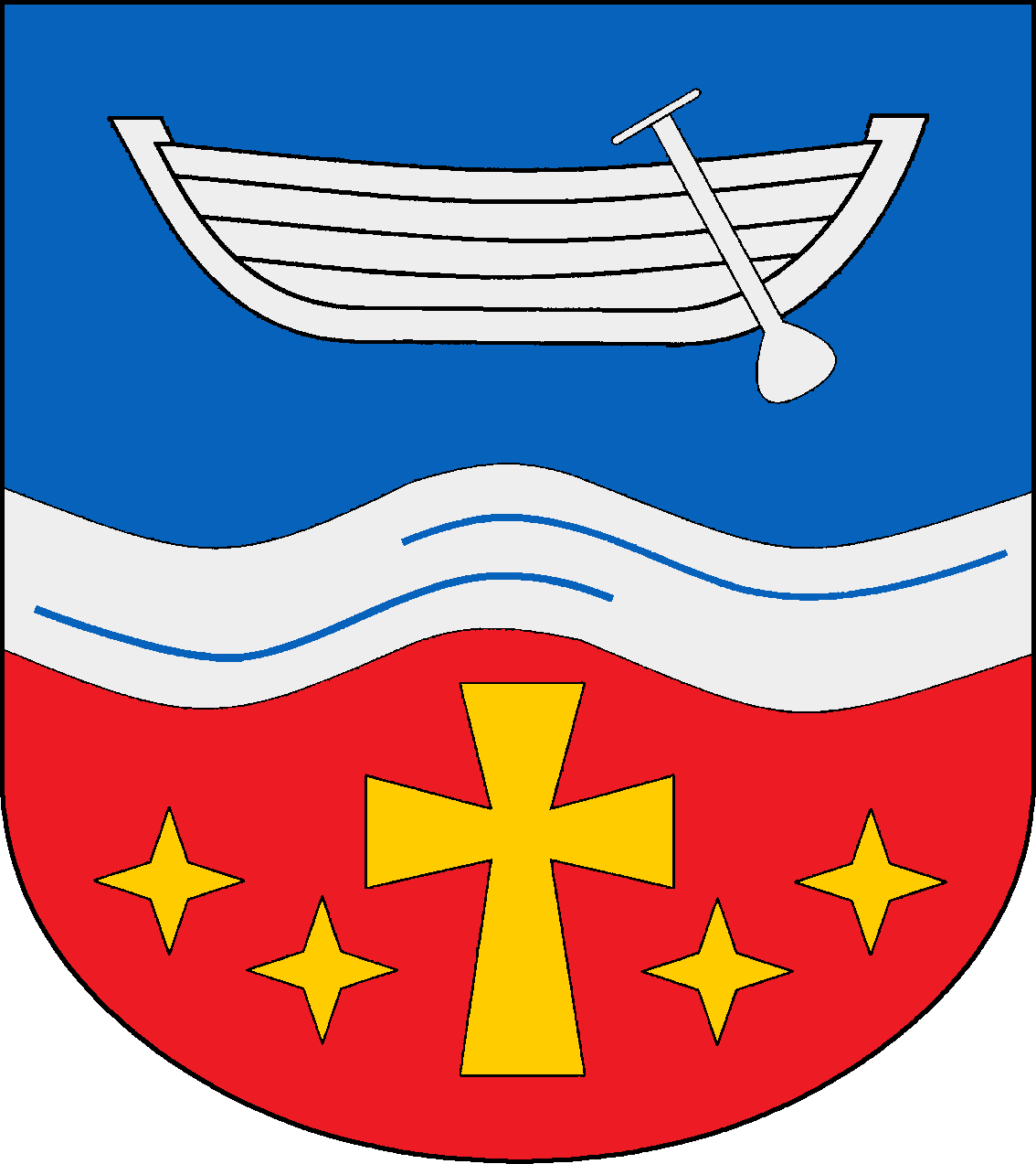 Coat of arms of the municipality Barnitz in Schleswig-Holstein, Germany.